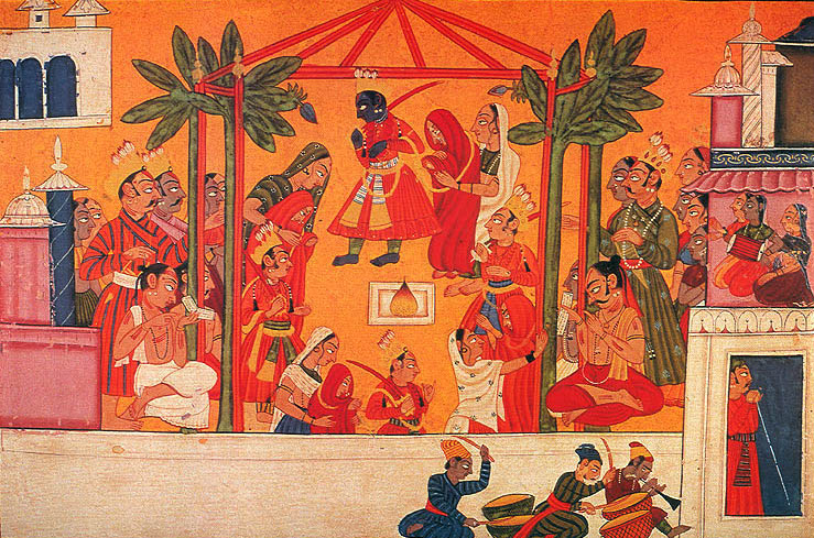 The marriage of the four sons of Dasharatha with the four daughters of Siradhvaja and Kushadhvaja Janakas. Rama and Sita, Laskhmana and Urmila, Bharata and Mandavi and Shatrughna and Shrutakirti are the four couples